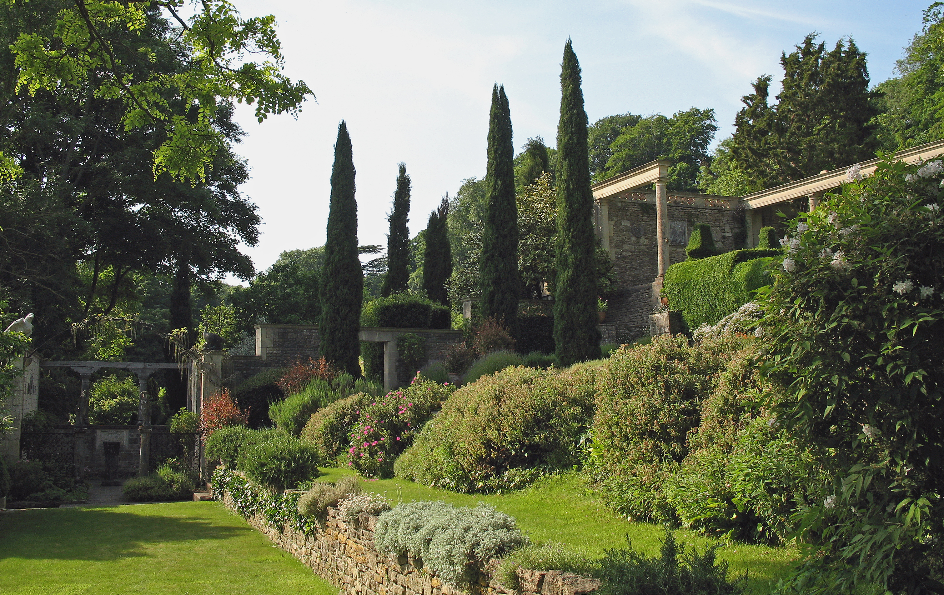 Iford Manor - garden